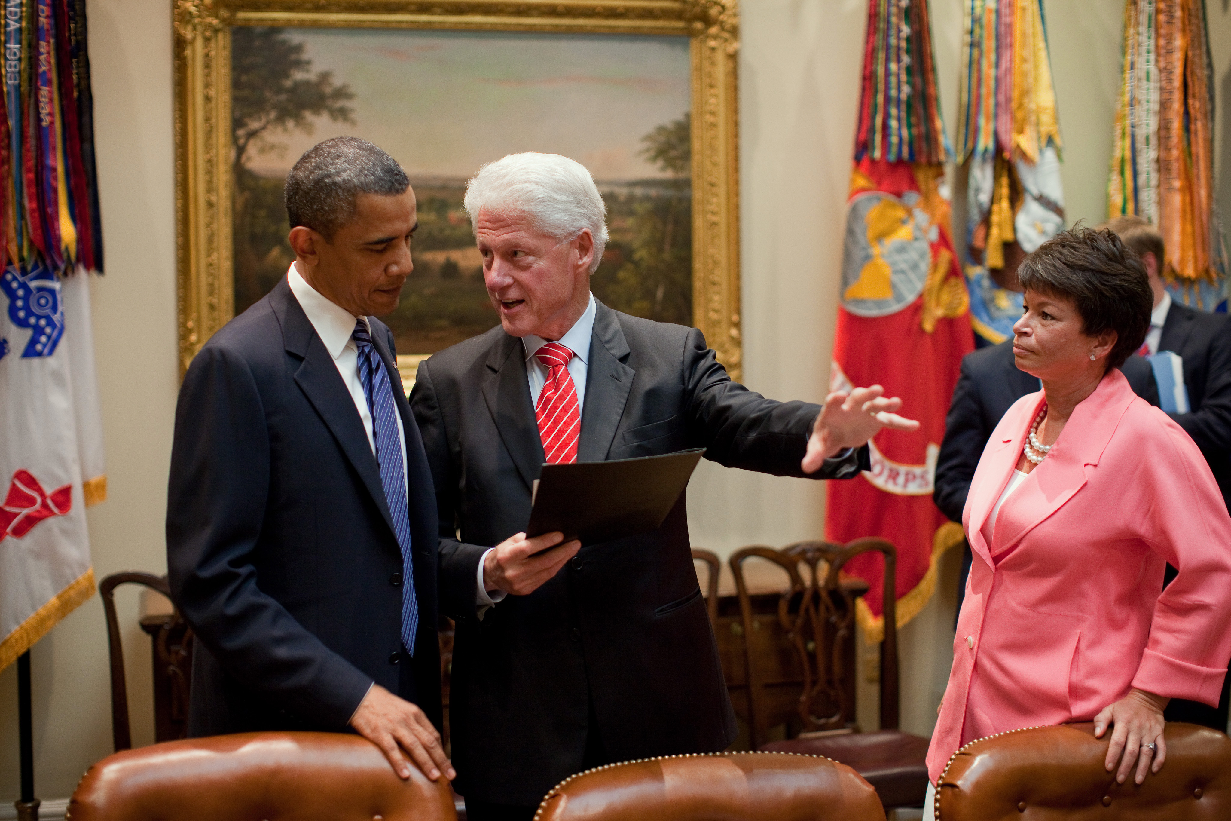 President Barack Obama talks with former President Bill Clinton and Senior Advisor Valerie Jarrett in the Roosevelt Room of the White House, July 14, 2010. The President was meeting with business leaders to discuss new ways to create jobs and strengthen the partnership between the public and private sectors to make new investments in the clean energy industry. (Official White House Photo by Pete Souza) This official White House photograph is in the public domain from a copyright perspective, so while restrictions such as personality or privacy rights may apply, in general, manipulations are allowed.